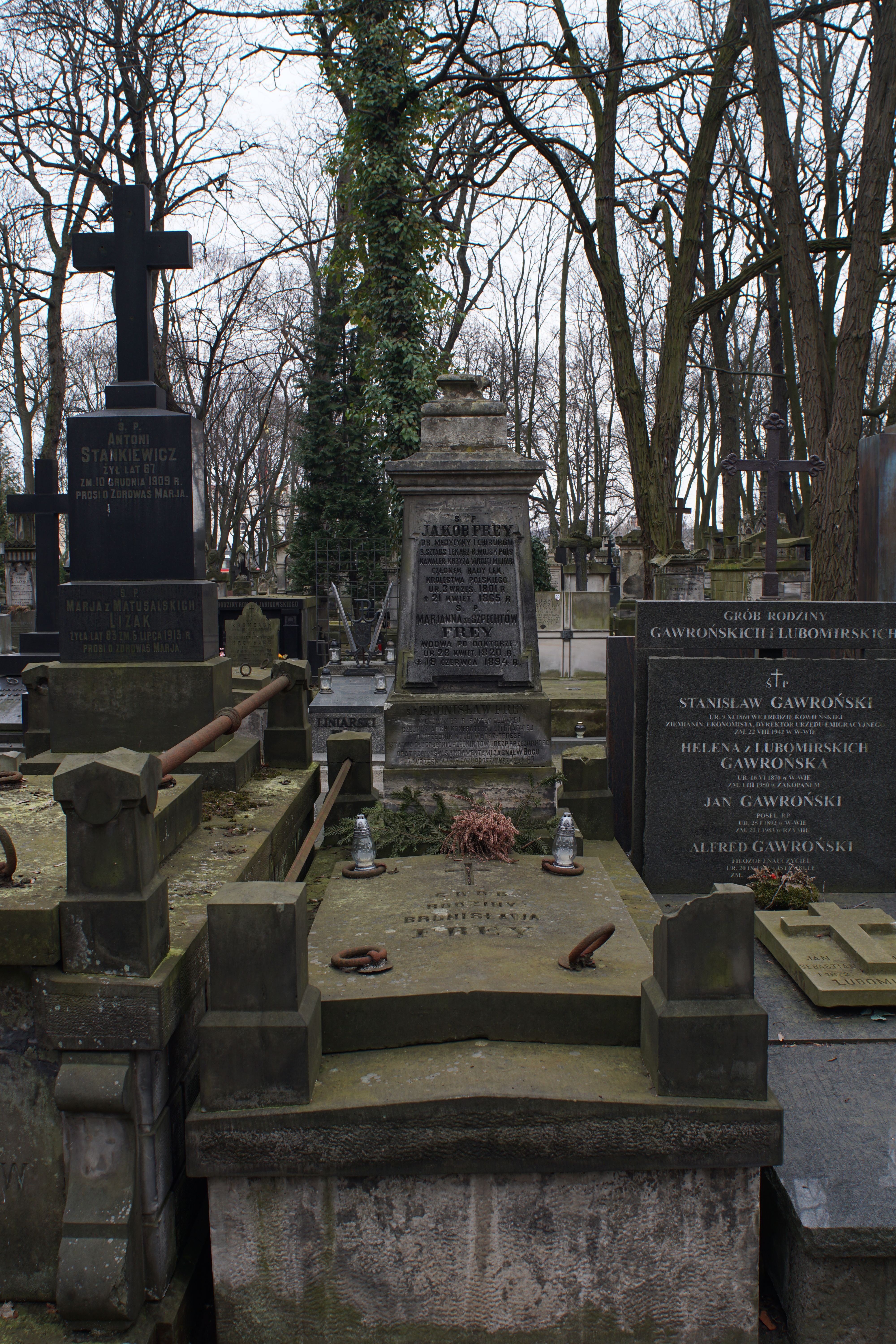 The grave of Jakub Michał Frey at the Powązki Cemetery (section 6, row 2, grave 10)